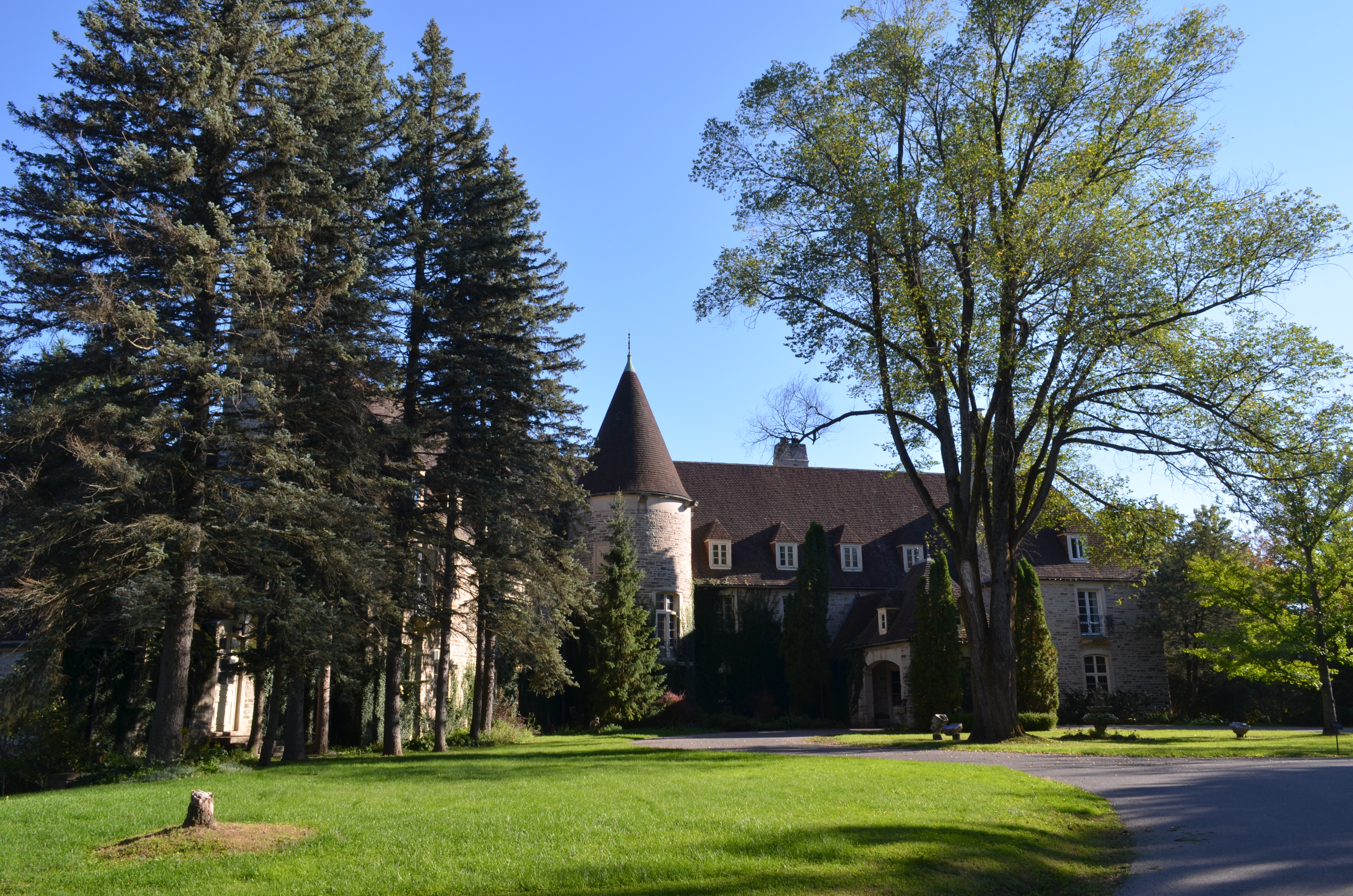 Eaton Hall